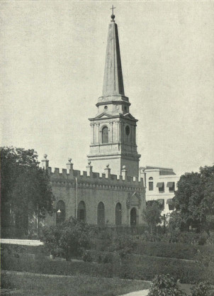 This, the oldest British building in India, was completed n 1680. Owing to the number of famous men who are buried within its walls - Hastings, Munro, and Lord Pigot all lie here- it has been called "the Westminister Abbey of the East."